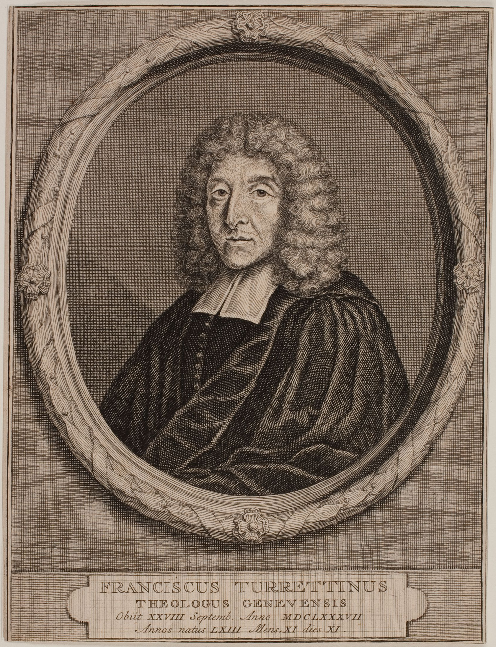 Portrait of Francis Turretin